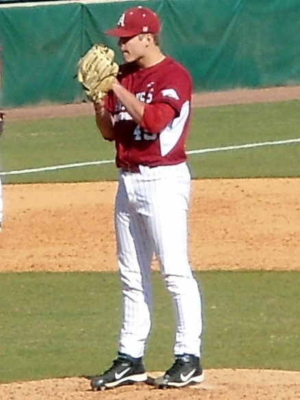 Jalen Beeks pitches for the Arkansas Razorbacks baseball team vs the Evansville Purple Aces in Baum Stadium, Fayetteville, Arkansas